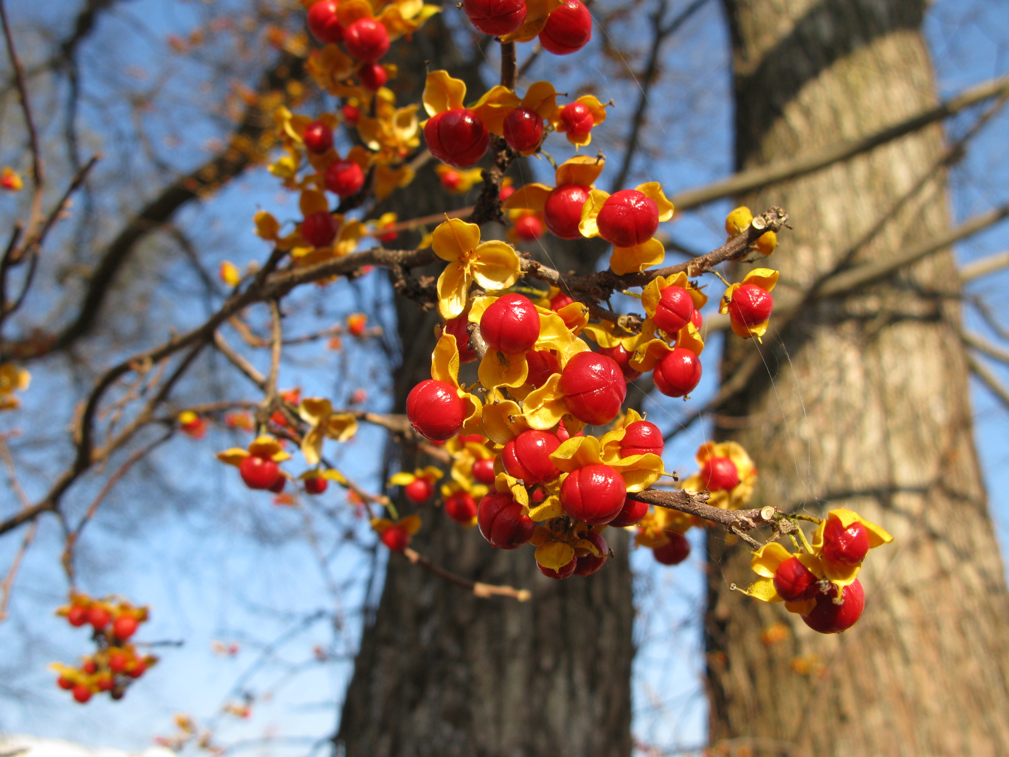 Celastrus orbiculatus, Fruit, Aizu area, Fukushima pref., Japan